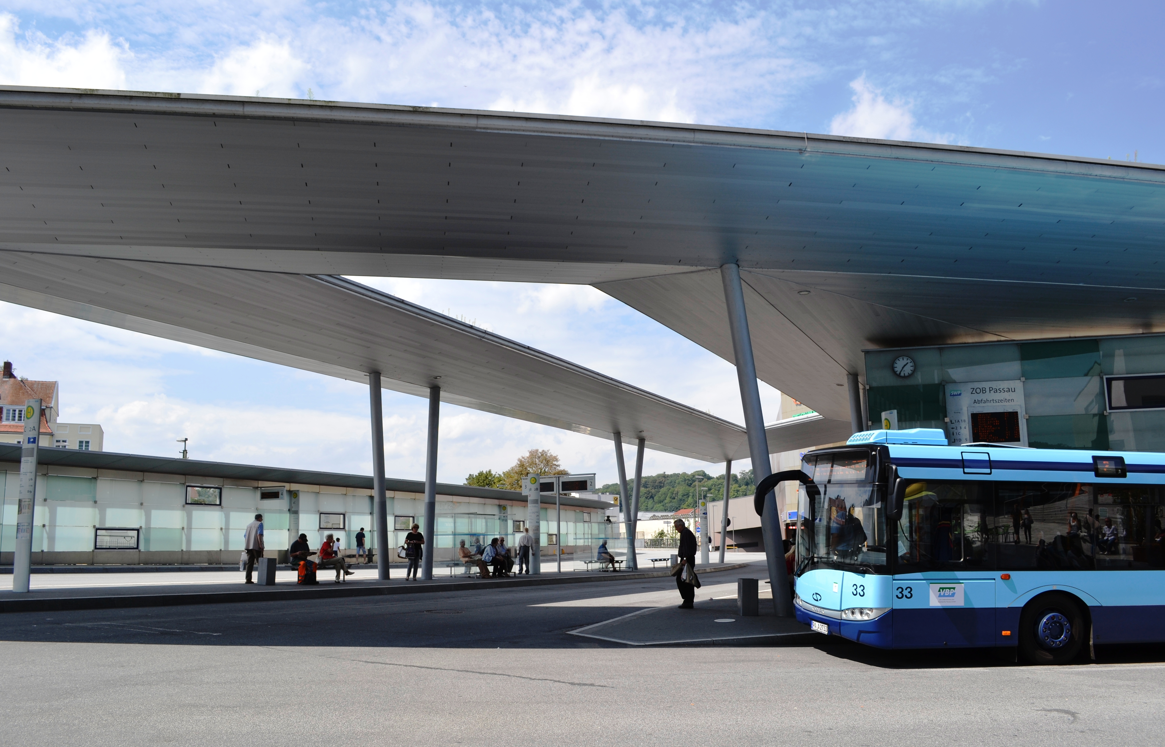 Solaris Urbino 12 bus (PA-A 2733; #33) in Passau, Germany. Stadtwerke Passau GmbH operator.